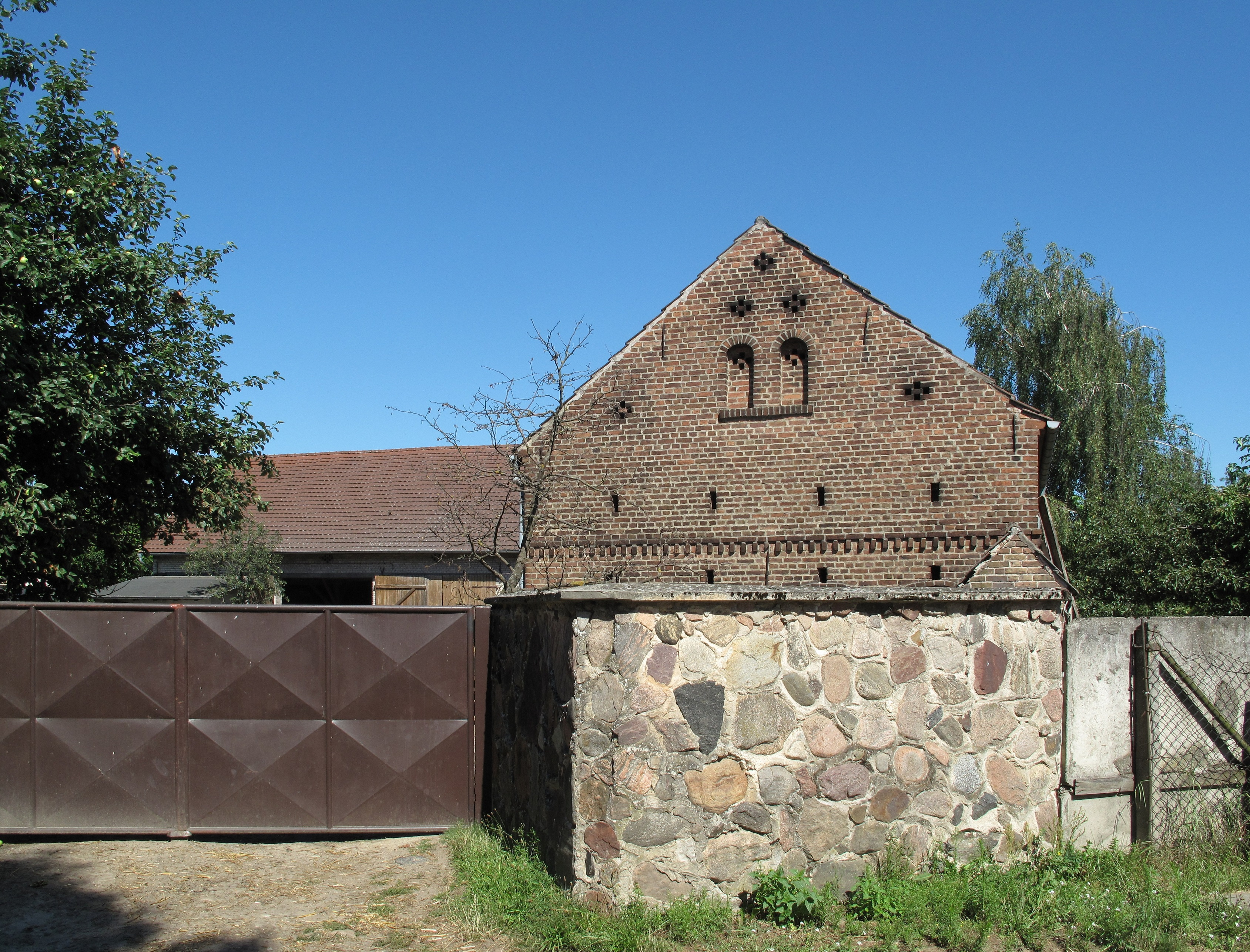 Farm courtyard in Kummersdorf. The village Kummersdorf is a part of the town Storkow, District Oder-Spree, Brandenburg, Germany. The village was first mentioned in 1442 and had on January 1, 2013 507 inhabitants. It is situated in the Dahme-Heideseen Nature Park.